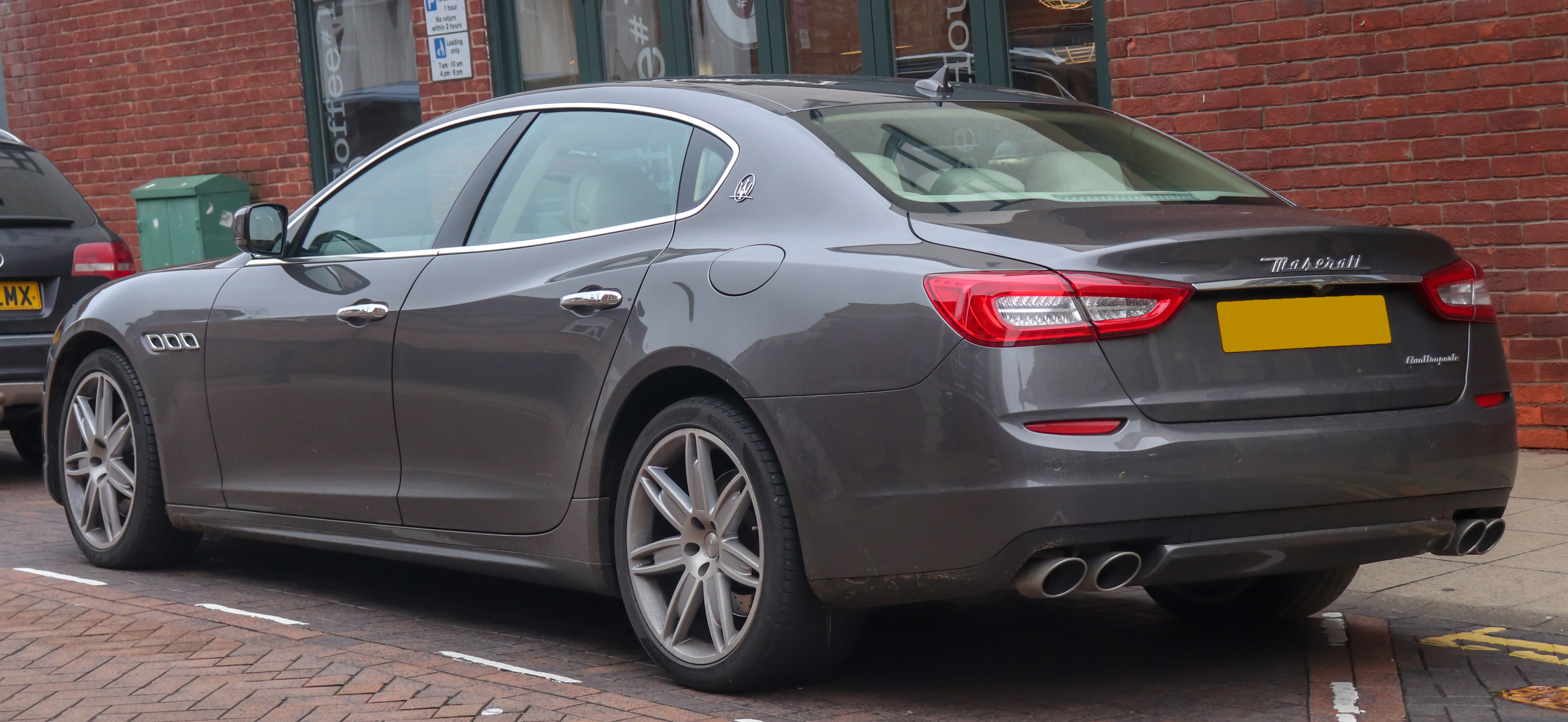 2015 Maserati Quattroporte DV6 Automatic 3.0 Rear Taken in Warwick